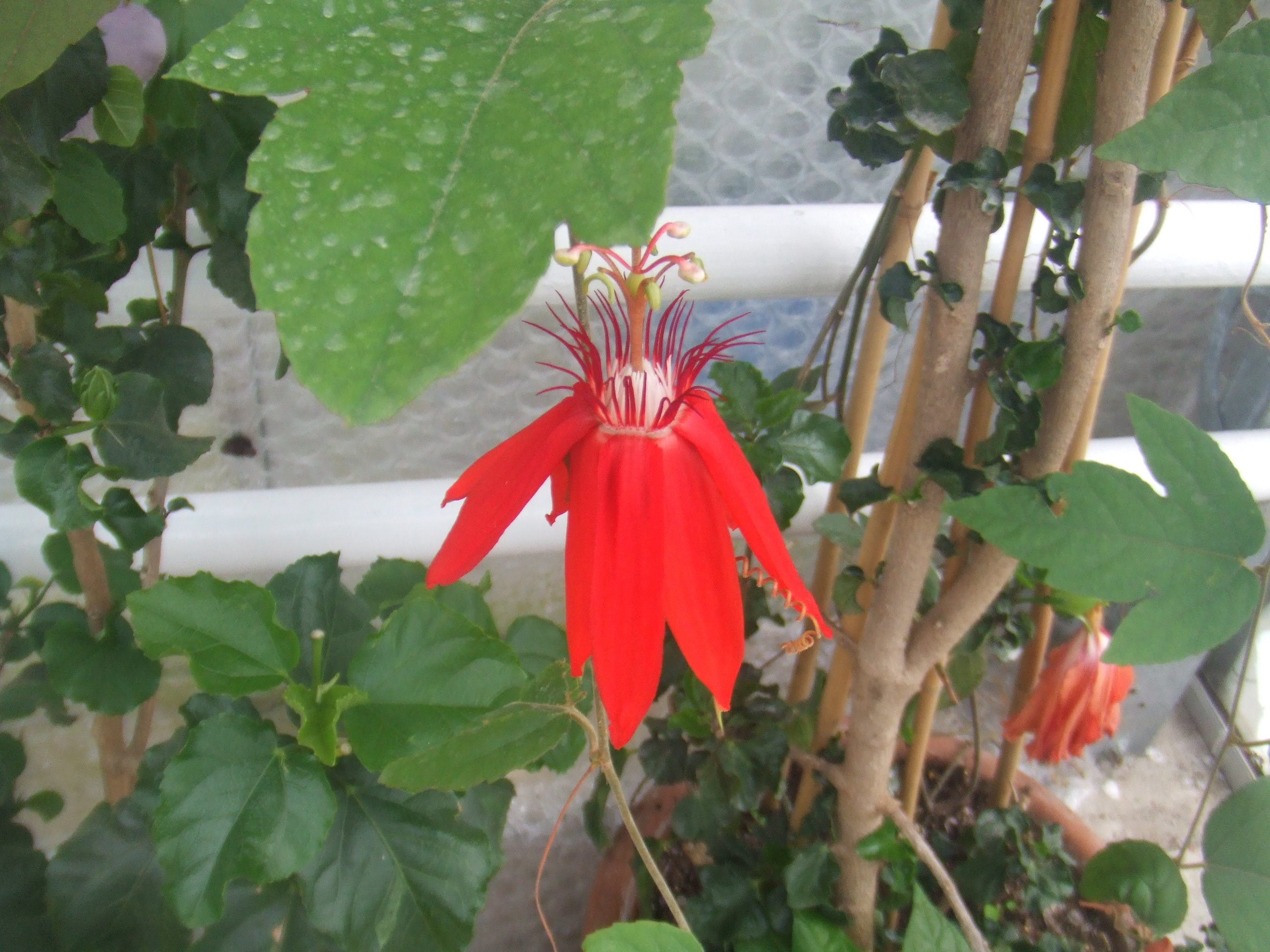 Passiflora vitifolia, picture taken at Passiflorahoeve in Harskamp, The Netherlands